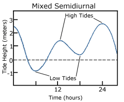 Mixed semidiurnal tide